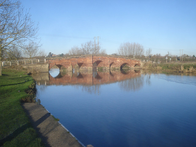 Eckington Bridge This 1729 bridge still carries a lot of traffic but most people see it as a beautiful construction. It has often been photographed and painted. Arthur Quiller-Couch liked it so much he wrote a famous poem 'Upon Eckington Bridge'. There is even an Eckington Bridge Club, which meets regularly in the nearby village.